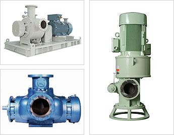 Bomba de dos tornillos